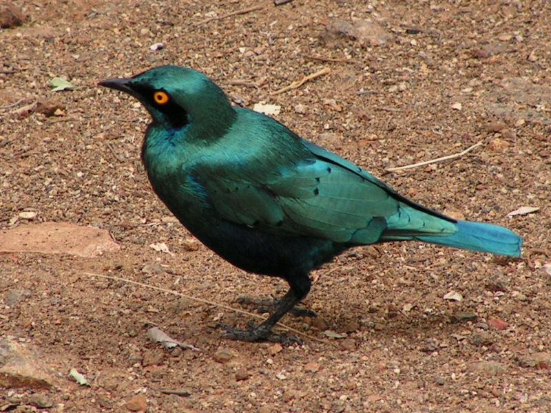 Great Blue-eared Starling (Lamprotornis chalybaeus), South Africa